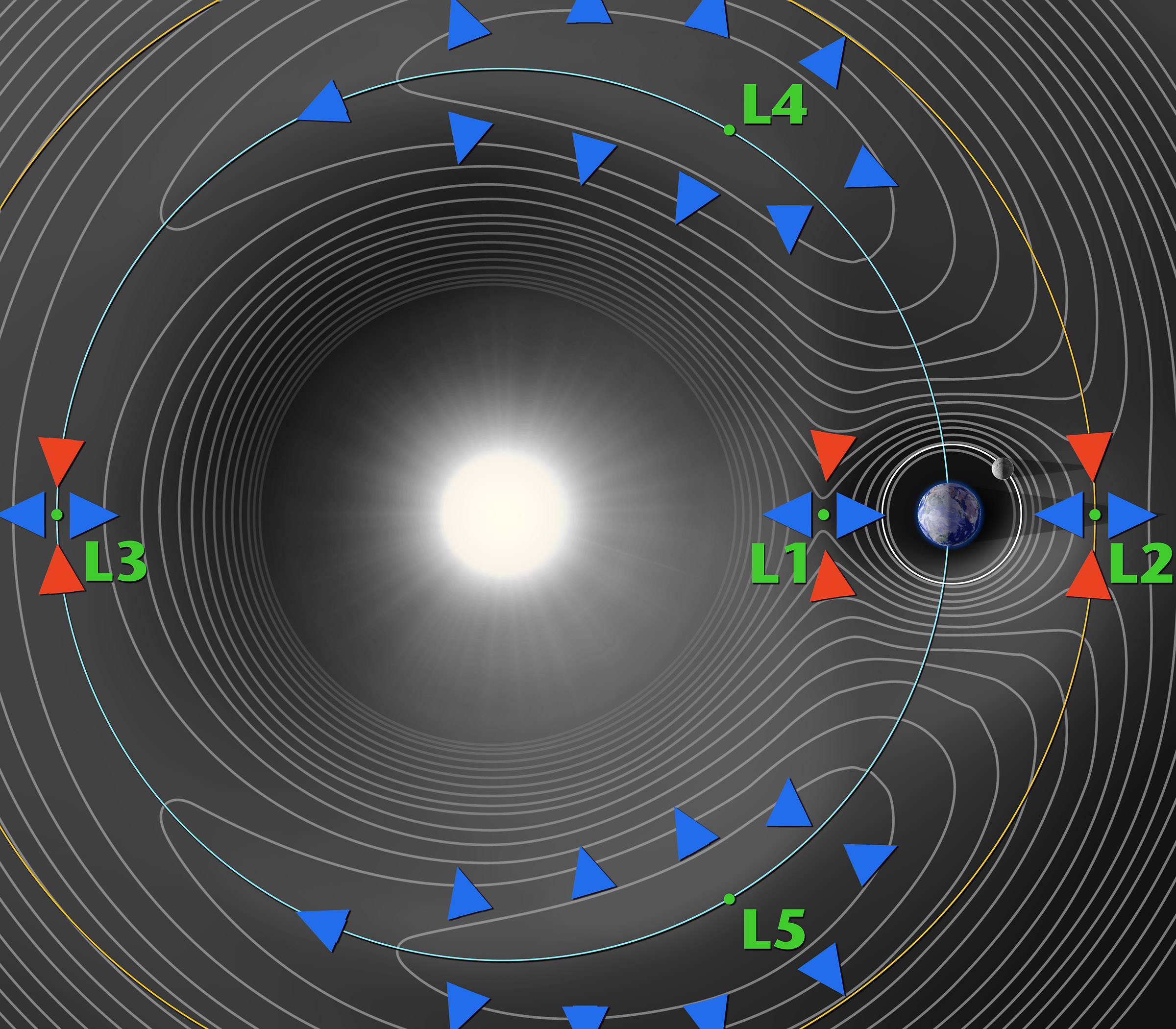 A (not drawn to scale!) contour plot of the effective potential of a two-body system. (the Sun and Earth here), showing the 5 Lagrange points. An object orbiting in free-fall could trace out a contour (such as the Moon, shown).